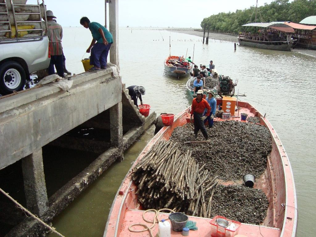 การประกอบอาชีพเลี้บงหอยแมลงภู่